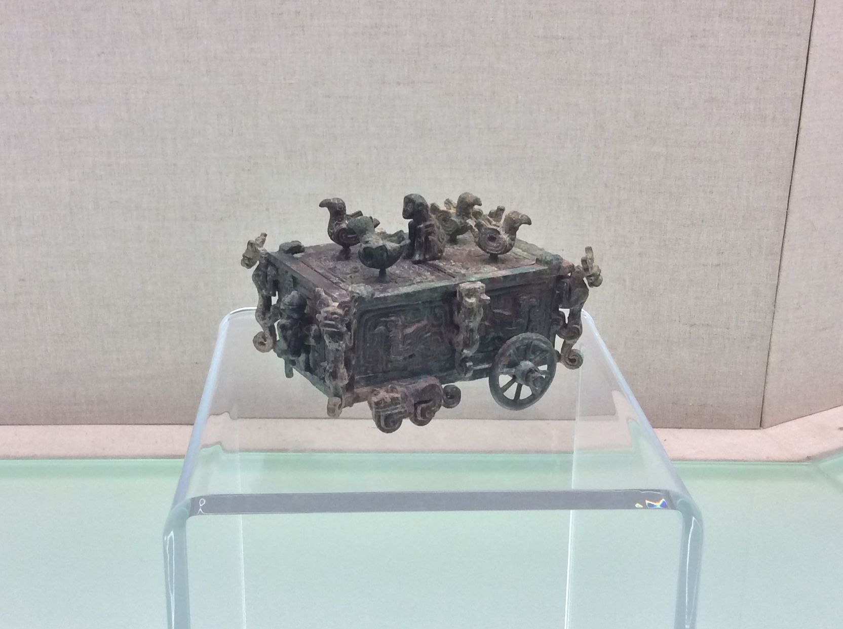 Design based on a passage from the Rites of Zhou